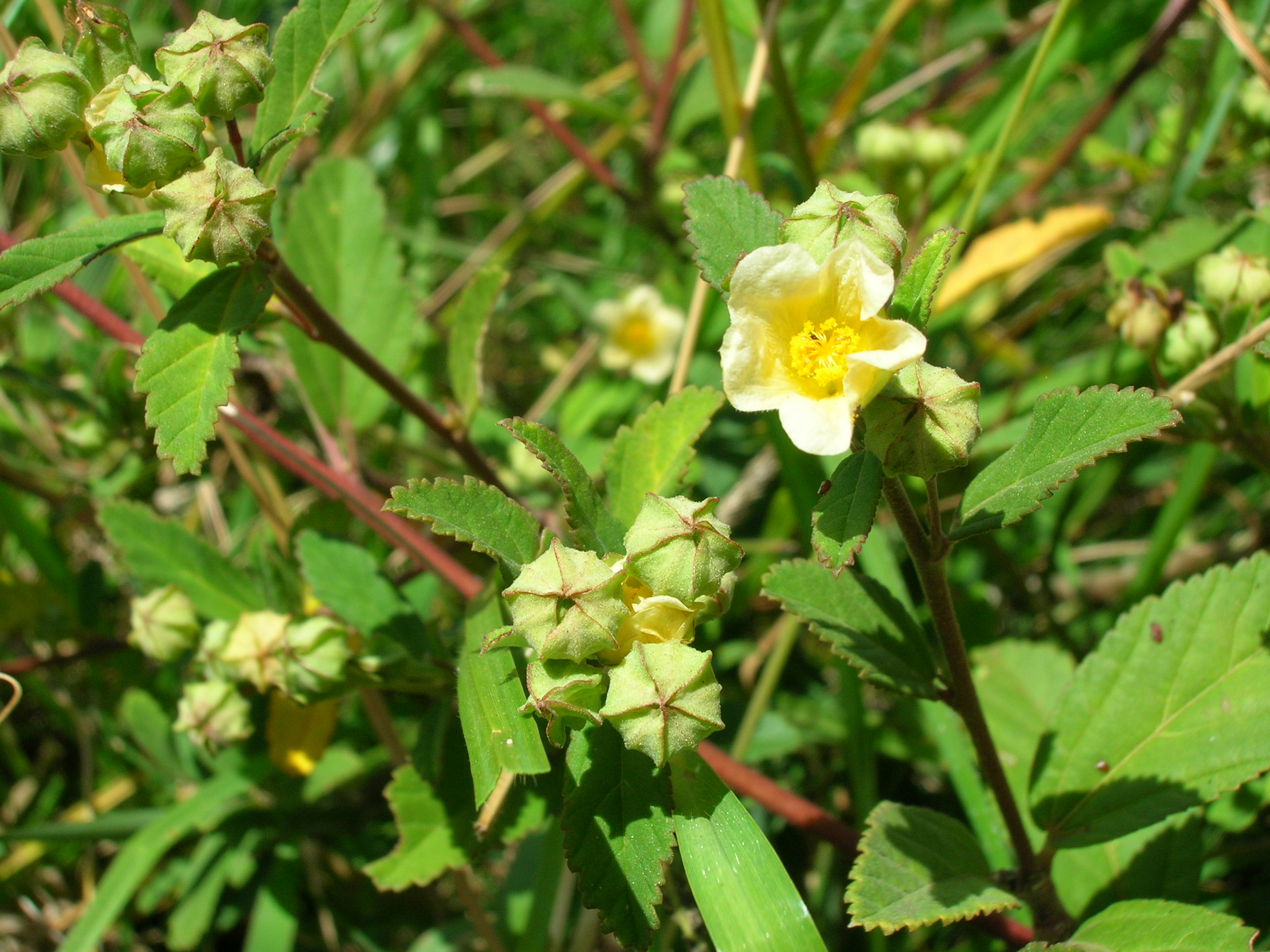 Sida rhombifolia (habit). Location: Maui, Keahuaiwi Gulch